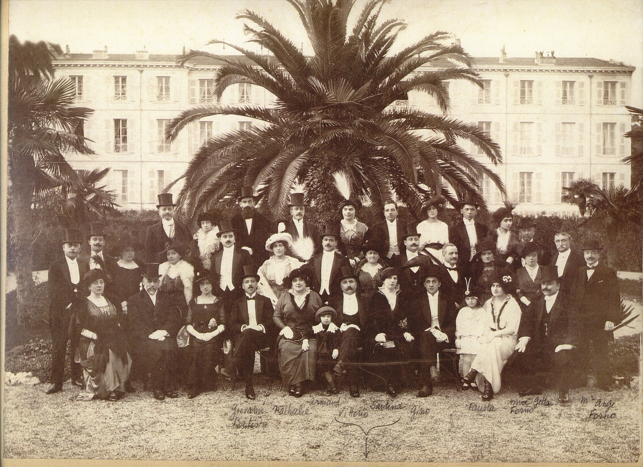 Photo of morabito family in early 1900's